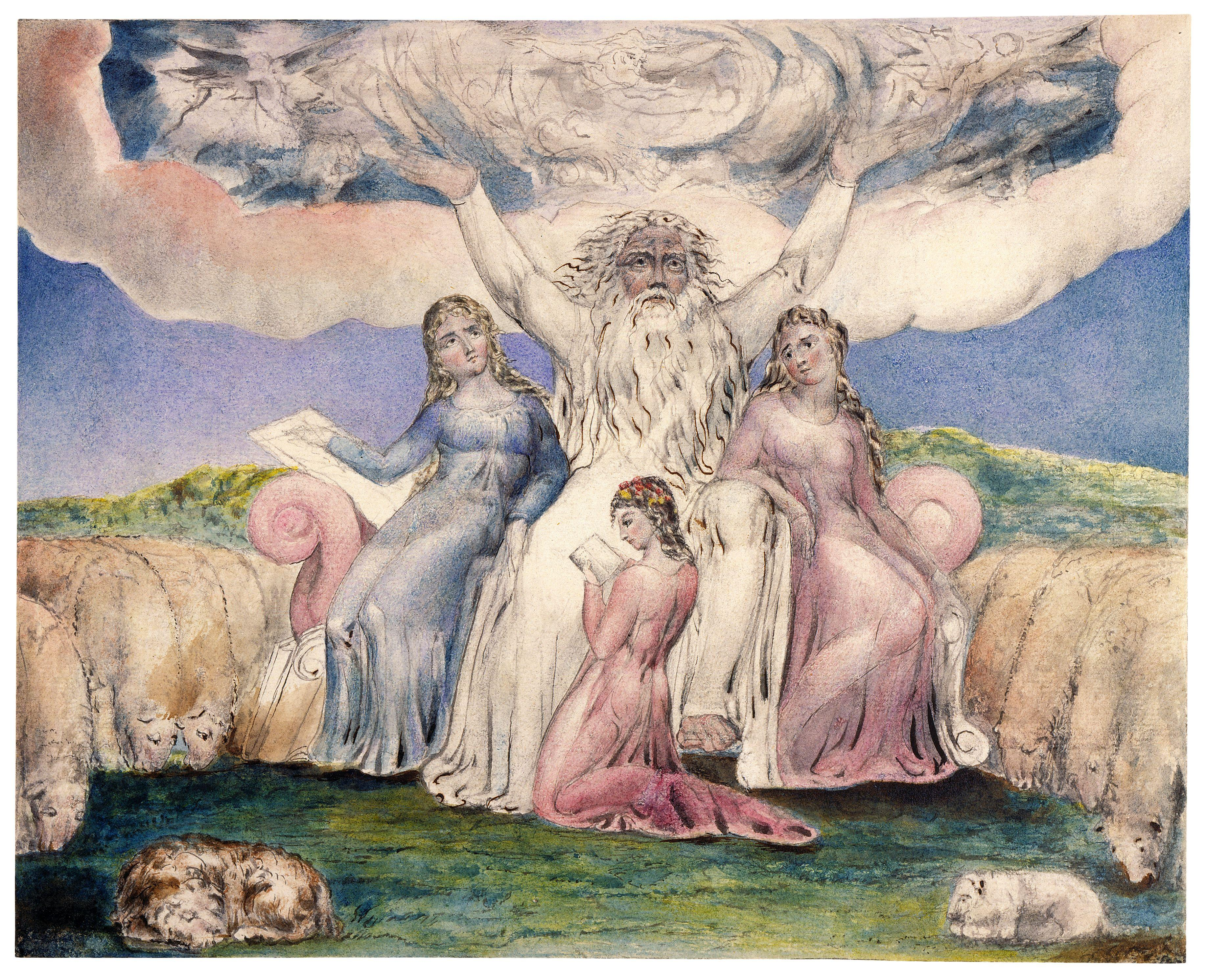 Job and His Daughters, from the Butts set. Pen and black ink, gray wash, and watercolour, over traces of graphite